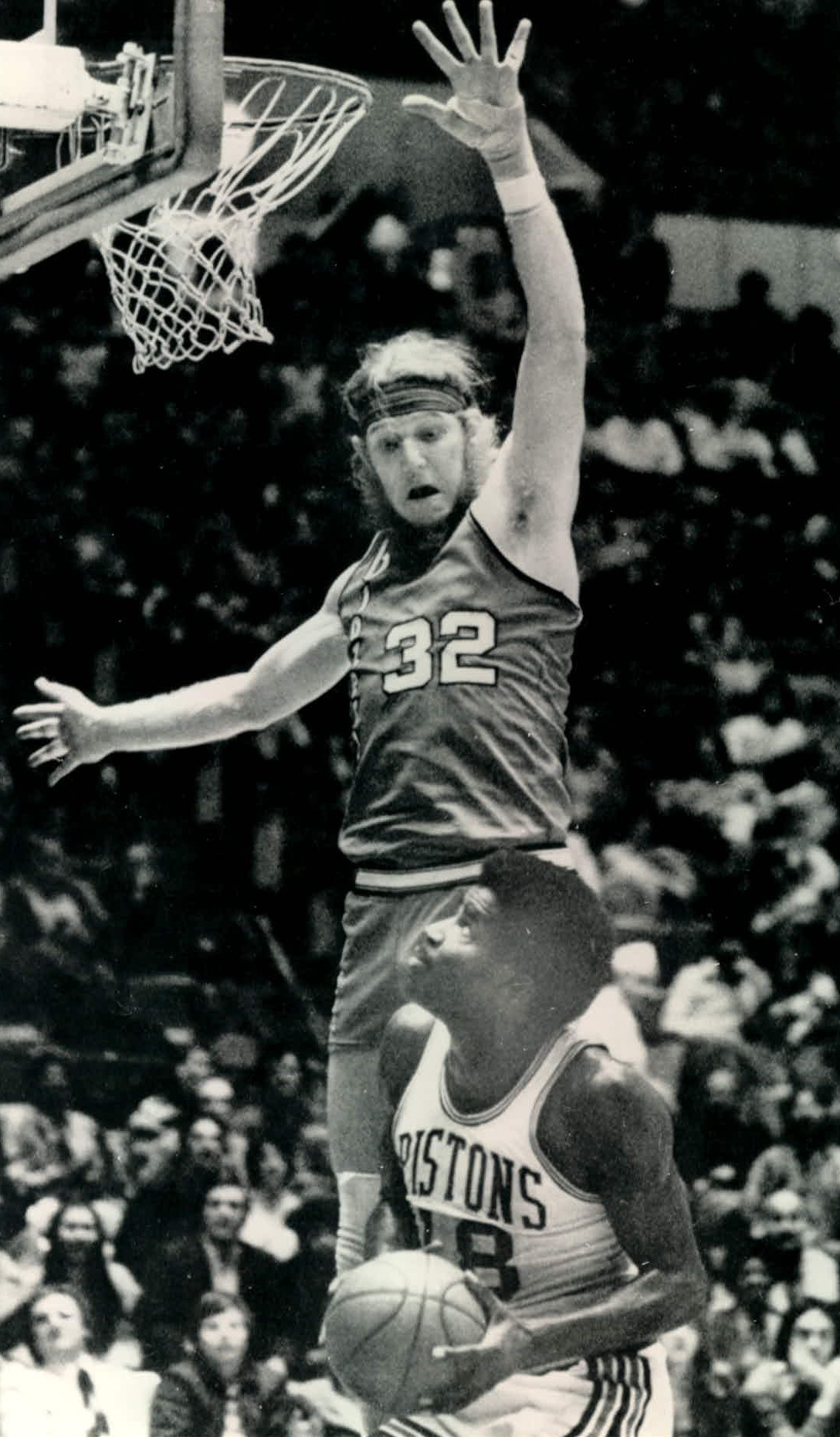 Professional basketball player Bill Walton